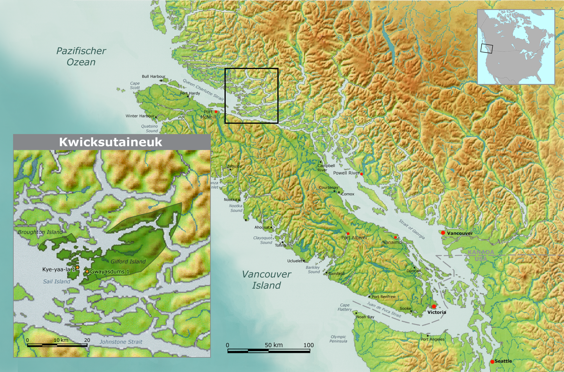 Map of Kwicksutaineuk First Nation traditional territory